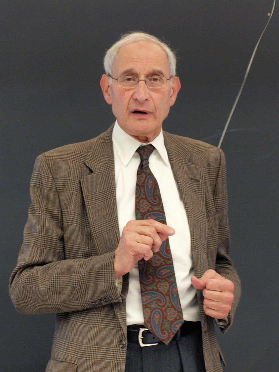 Former Solicitor General and current Harvard Law professor Charles Fried speaks at a panel discussion on the Solicitor General's role. Photo by Matthew W. Hutchins.